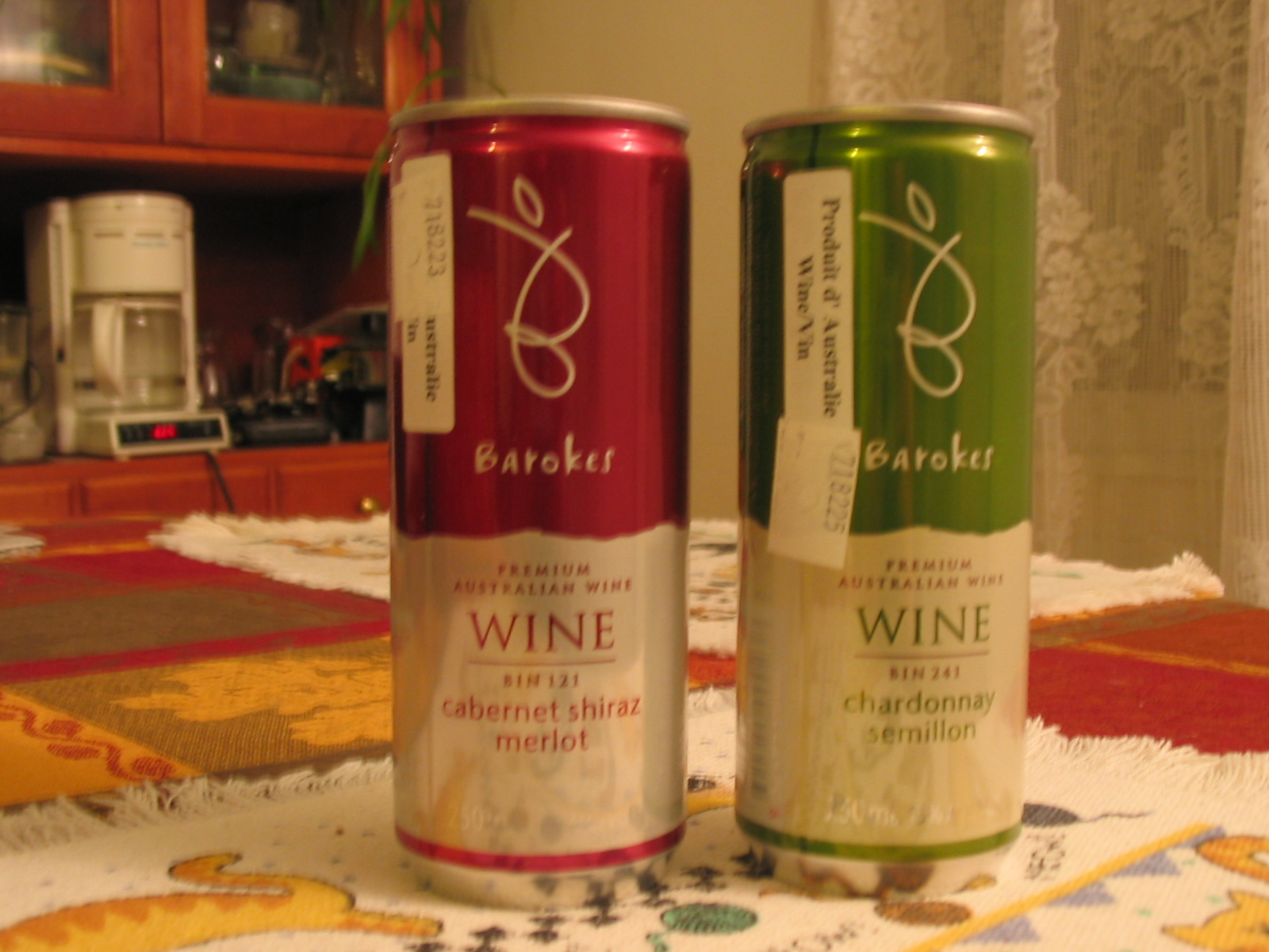 Australian wines in alternative packages of aluminum cans